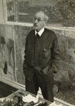 Le peintre Pierre Bonnard.